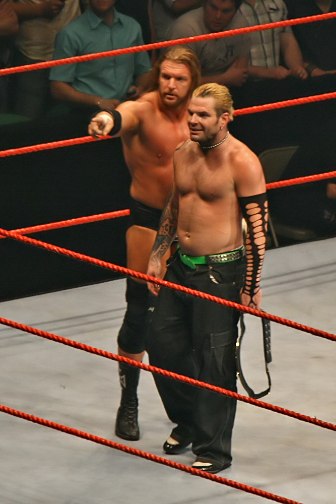 Jeff Hardy with Triple H celebrating after the match. Taken during the WWE Raw - Survivor Series Tour, at Rod Laver Arena, Melbourne Park, Melbourne, Australia. Hardy wrestled in the main event of the night, a tag-team bout involving Umaga & Randy Orton (reigning WWE Champion) vs Jeff Hardy (reigning Intercontinental Champion) & Triple H; the match was won by Triple H pinning Orton following a pedigree.